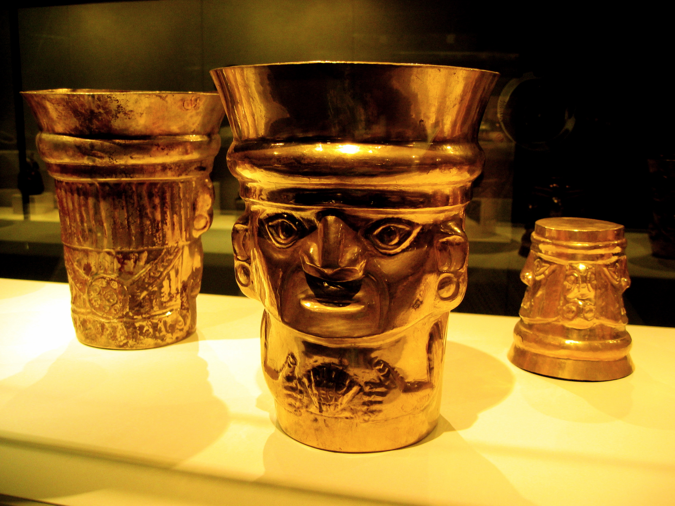 A set of pre-Hispanic Sican culture (9th-11th century) beaker figure gold cups found in Lambayeque, Peru. From the Metropolitan Museum of New York.